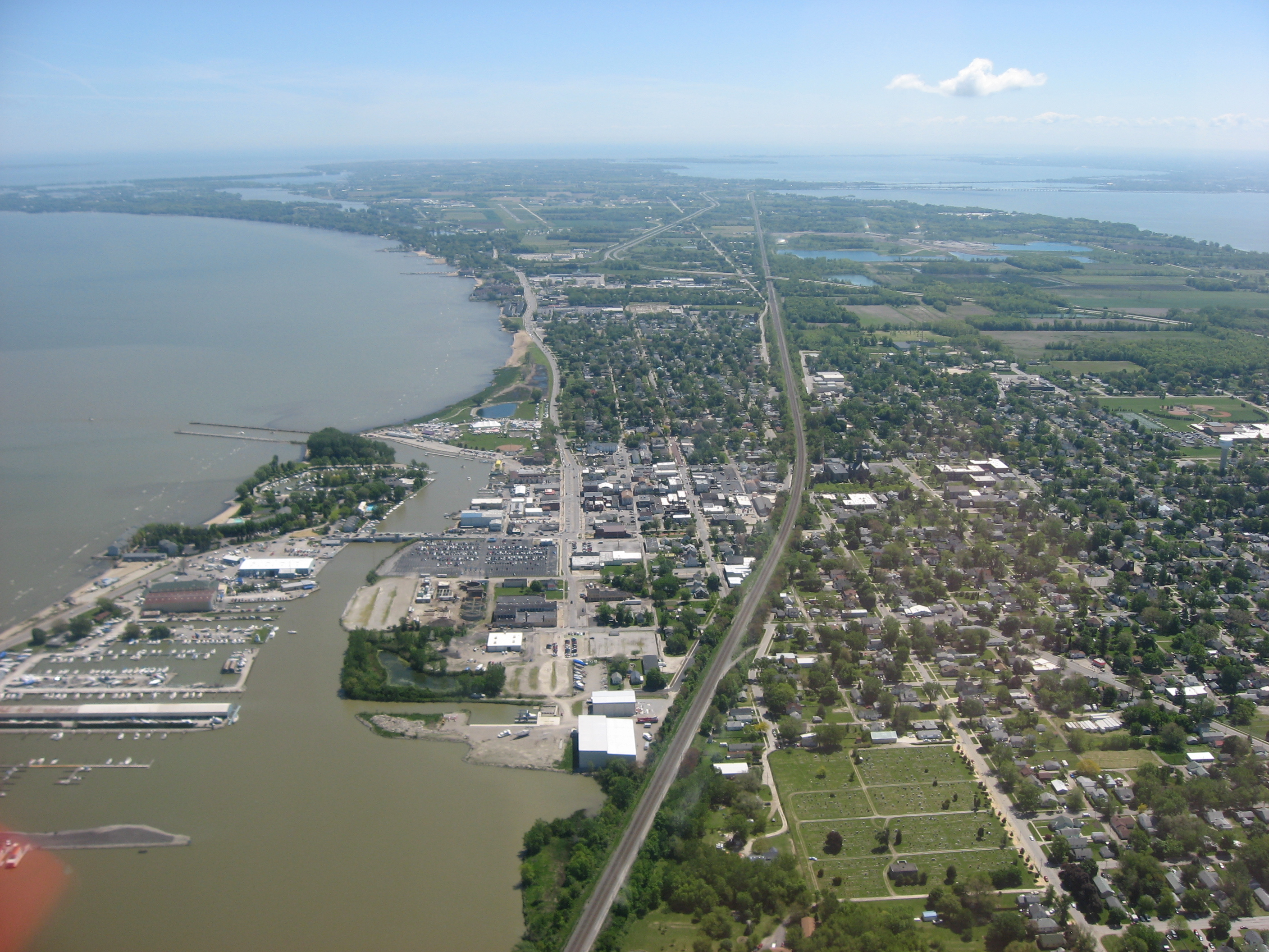 Downtown of Port Clinton, a Lake Erie port city and the county seat of Ottawa County, Ohio, United States. The Erie-Ottawa Regional Airport is visible in the background. Picture taken from a Diamond Eclipse light airplane at an altitude of 2,200 feet MSL and a bearing of approximately 93º.